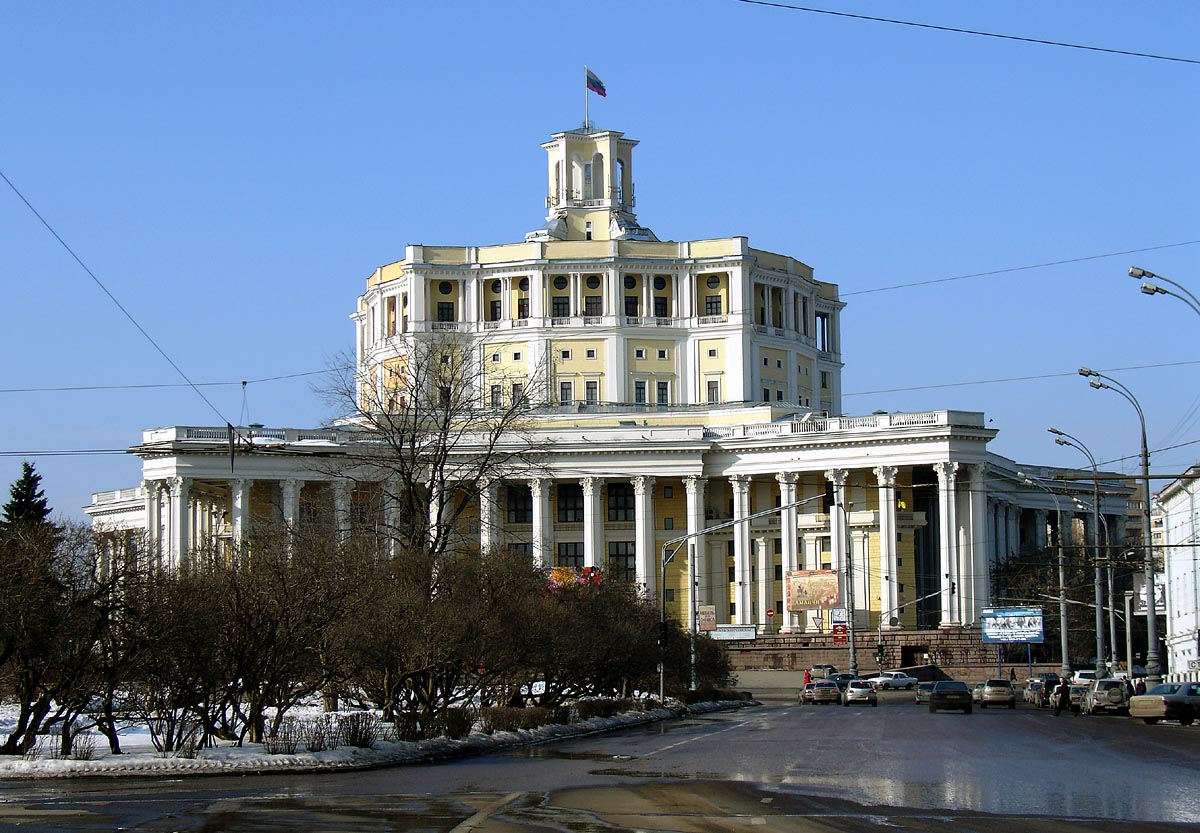 Red Army Theater, Moscow (1938, by Karo Alabyan)